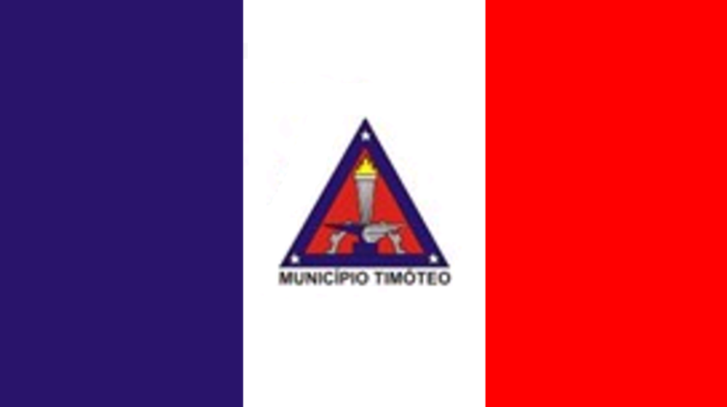 Flag of Timóteo, Minas Gerais, Brazil.